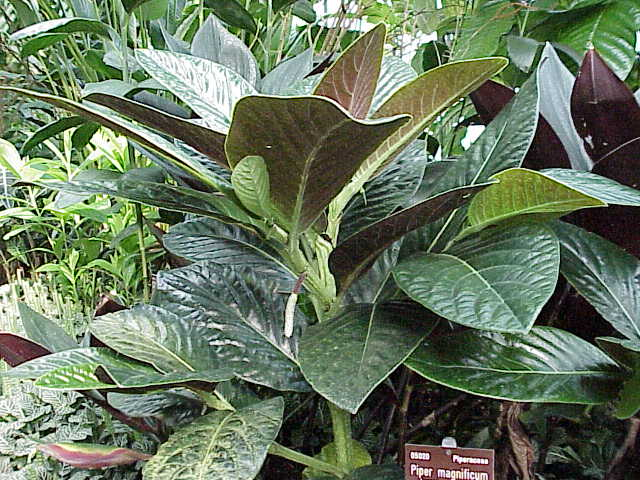 Species: Piper magnificum Family: Piperaceae Image No. 2